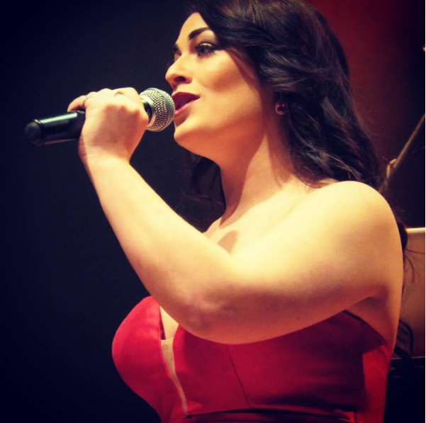 Alessandra Paonessa performing live in England on G4's Back For Good Tour